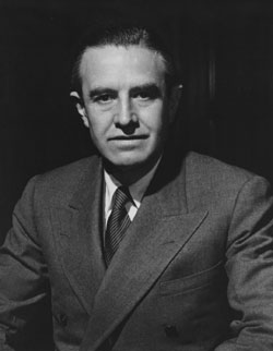 William Averell Harriman, US Ambassador to the Soviet Union 1943-1946